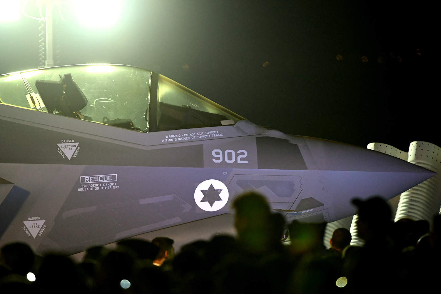 During a festive ceremony at Nevatim Air Force Base in southern Israel, on Monday, December 12, 2016, Israel received its first two fifth-generation F-35 Joint Strike Fighters, code-named by the Israeli Air Force as "Adir," (The Mighty One). The ceremony included thousands of invitees, and speeches by Prime Minister Benjamin Netanyahu and U.S. Secretary of Defense Ash Carter.